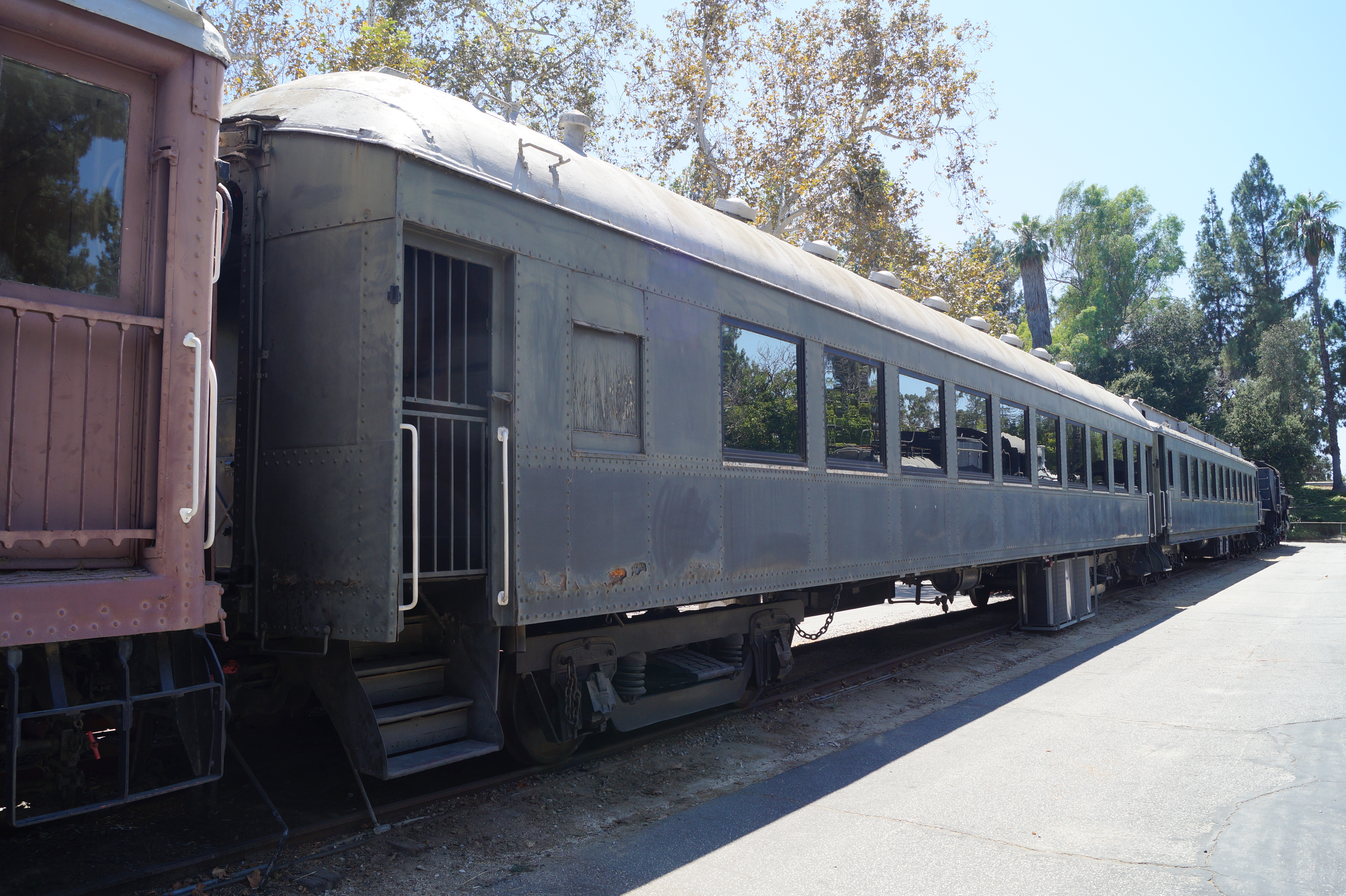 Travel Town Museum is a transport museum dedicated in the northwest corner of Los Angeles, California's Griffith Park. The history of railroad transportation in the western United States from 1880 to the 1930s is the primary focus of the museum's collection, with an emphasis on railroading in Southern California and the Los Angeles area.